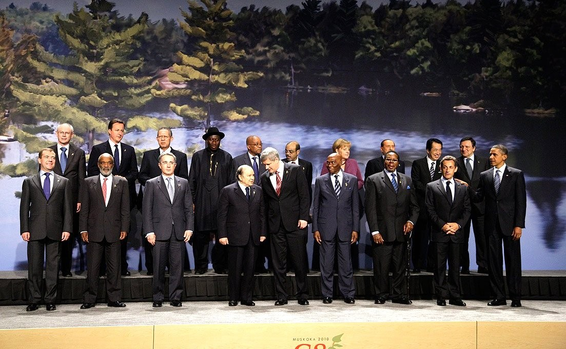 G8 heads of state and government and the leaders of Algeria, Haiti, Egypt, Columbia, Malawi, Nigeria, Senegal, Ethiopia, South Africa, Jamaica.